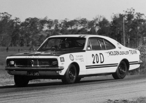 Colin Bond in the Holden Dealer Team entered Holden HT Monaro GTS350 at Lakeside International Raceway in July 1970. Bond was competing in the support race for Group E Series Production Touring Cars at the meeting, which featured Round 6 of the 1970 Australian Touring Car Championship